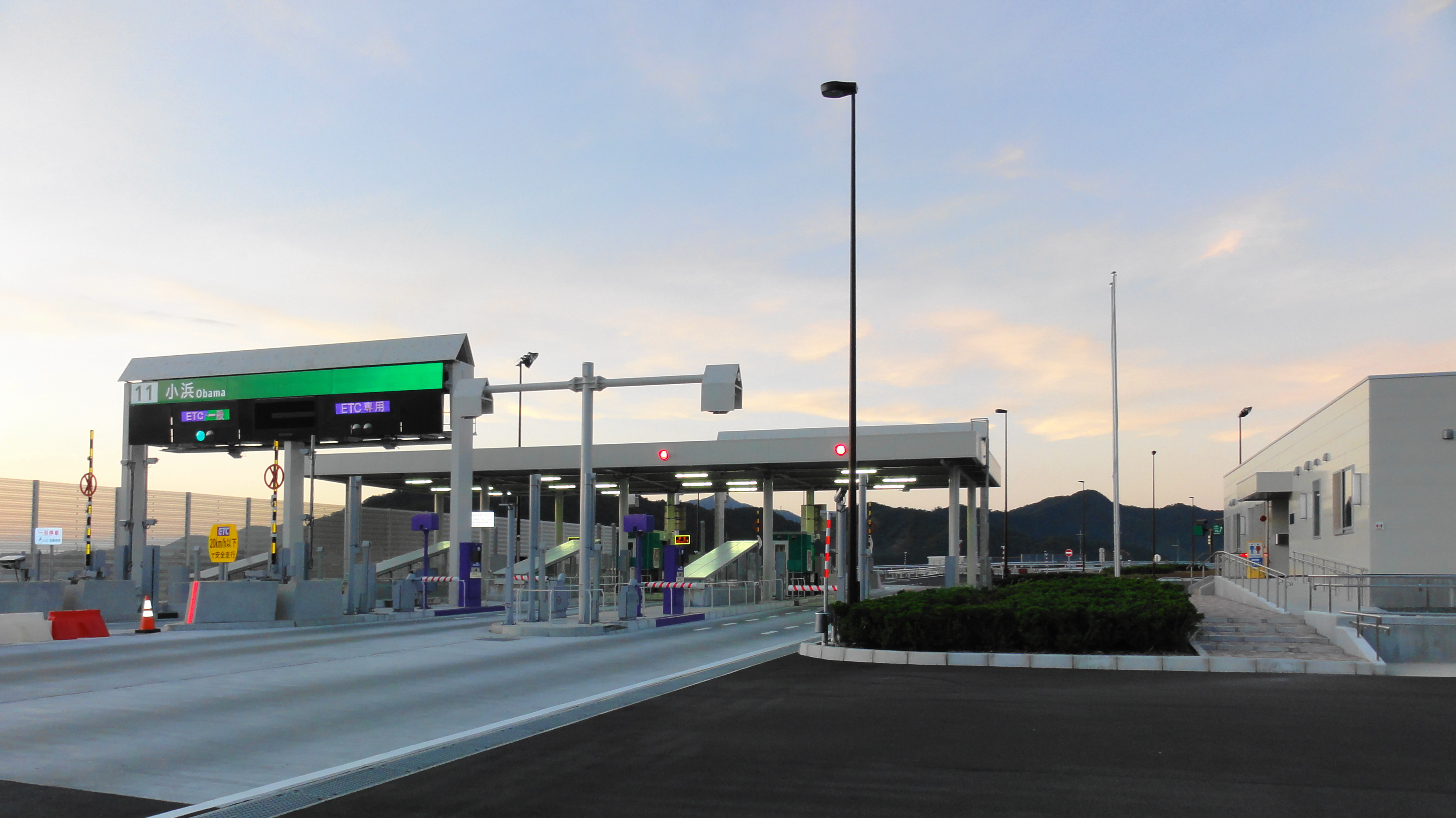 Obama Inter Change,Fukui Prefecture, Japan